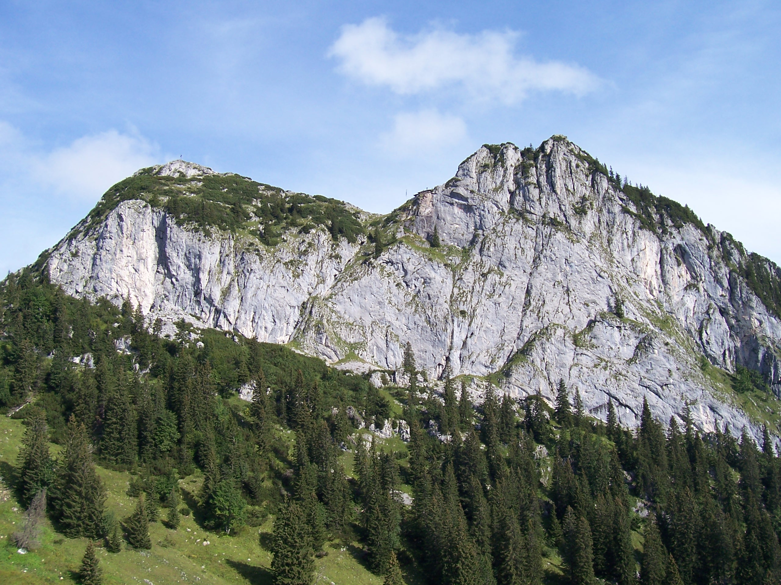 Roßstein (1698 m) and Buchstein (1701 m)